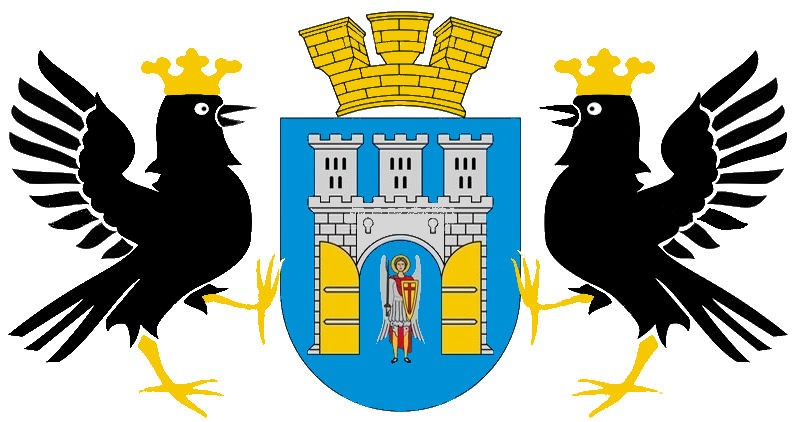 The Ivano-Frankivsk coat of arms (big)